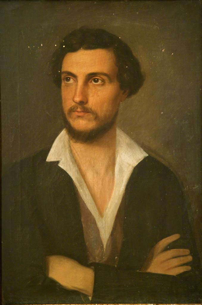 Photo of the painting by Giuseppe Gandolfo portraying his nephew Anthony Gandolfo Brancaleone